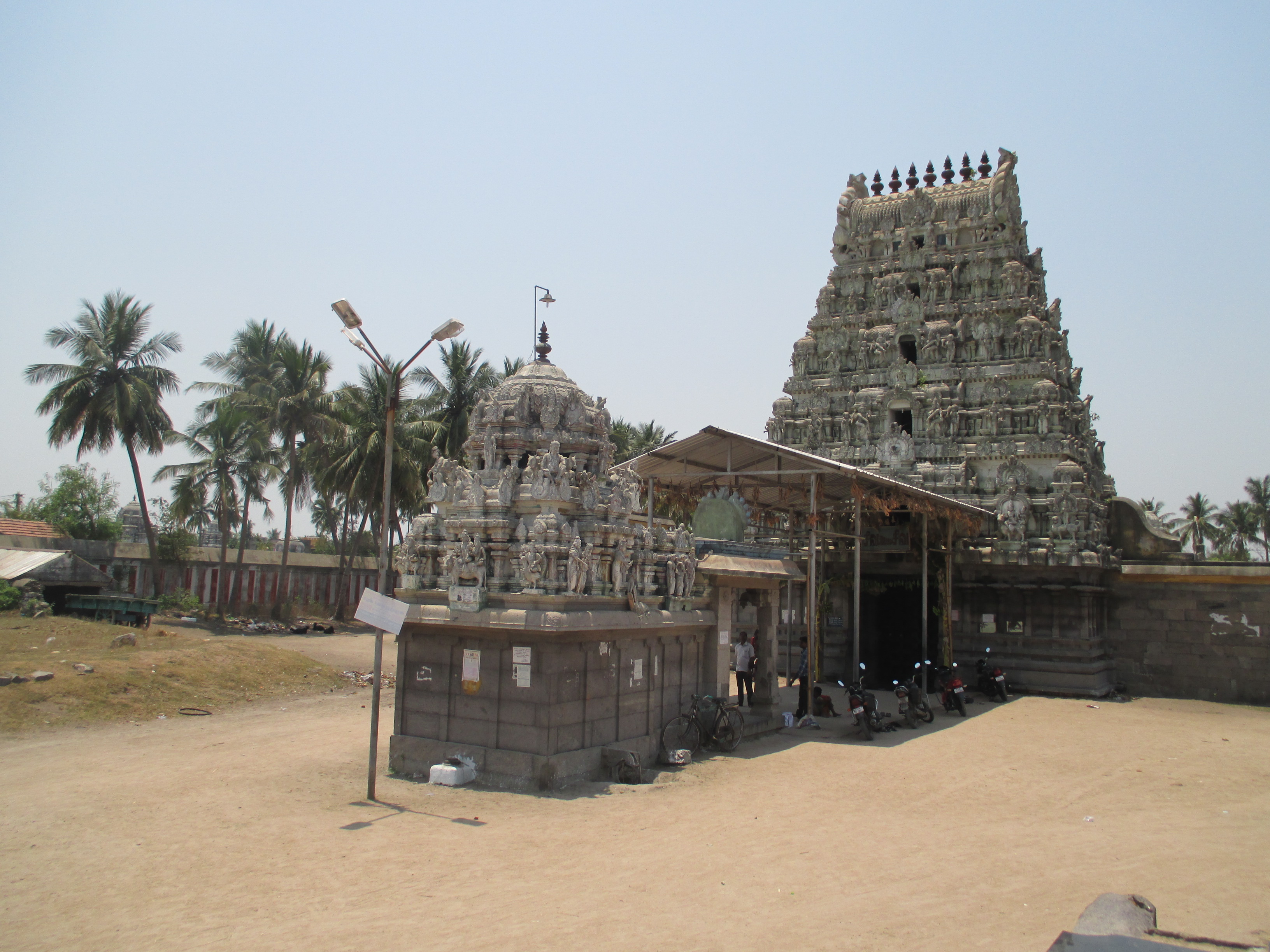 Kripapureeswarar Temple